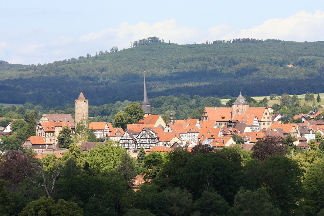 Schlitz (district Vogelsbergkreis), view of the historic city centre